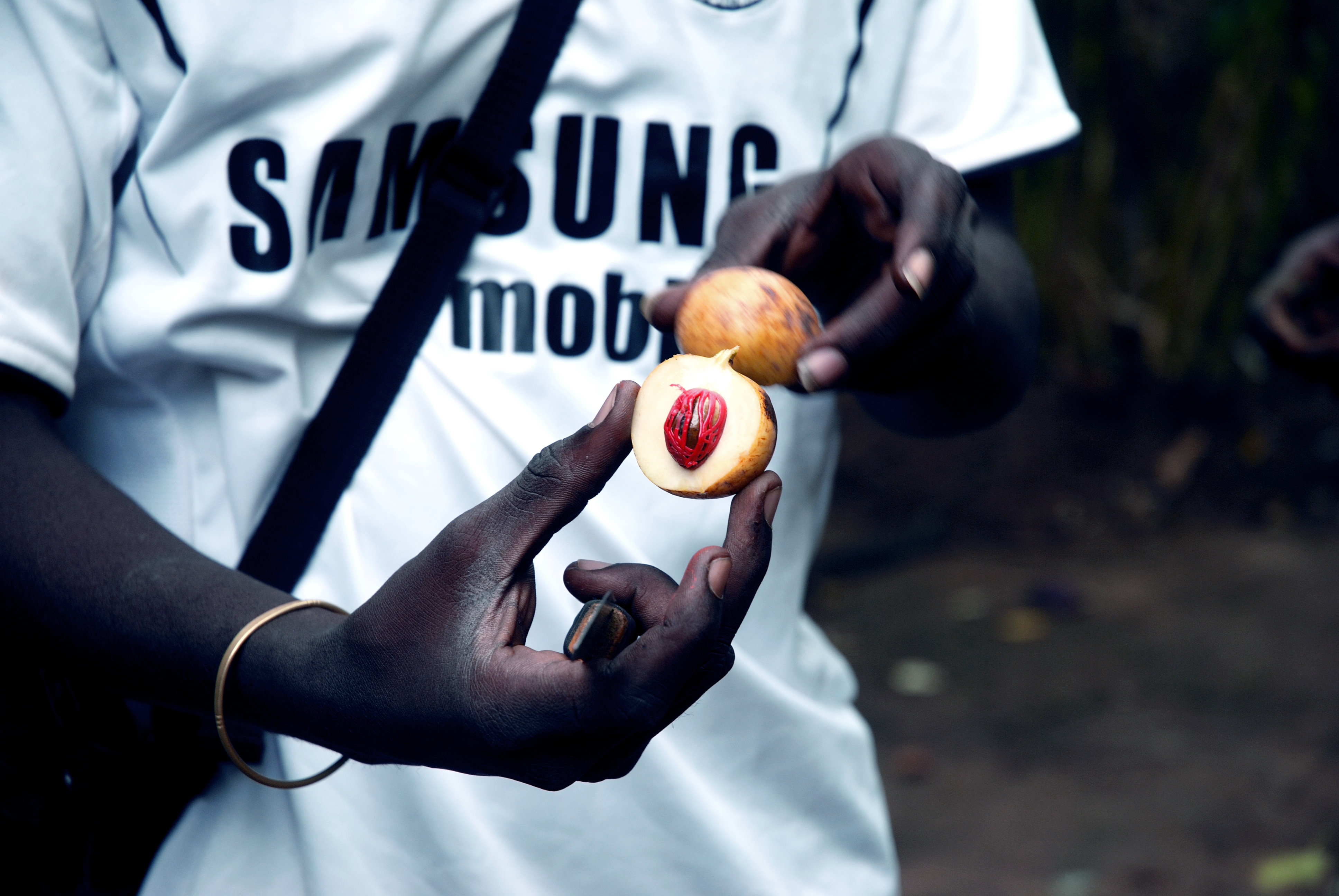 A local guide shows a nutmeg in a spice farm in Zanzibar (probably in Kizimbani)